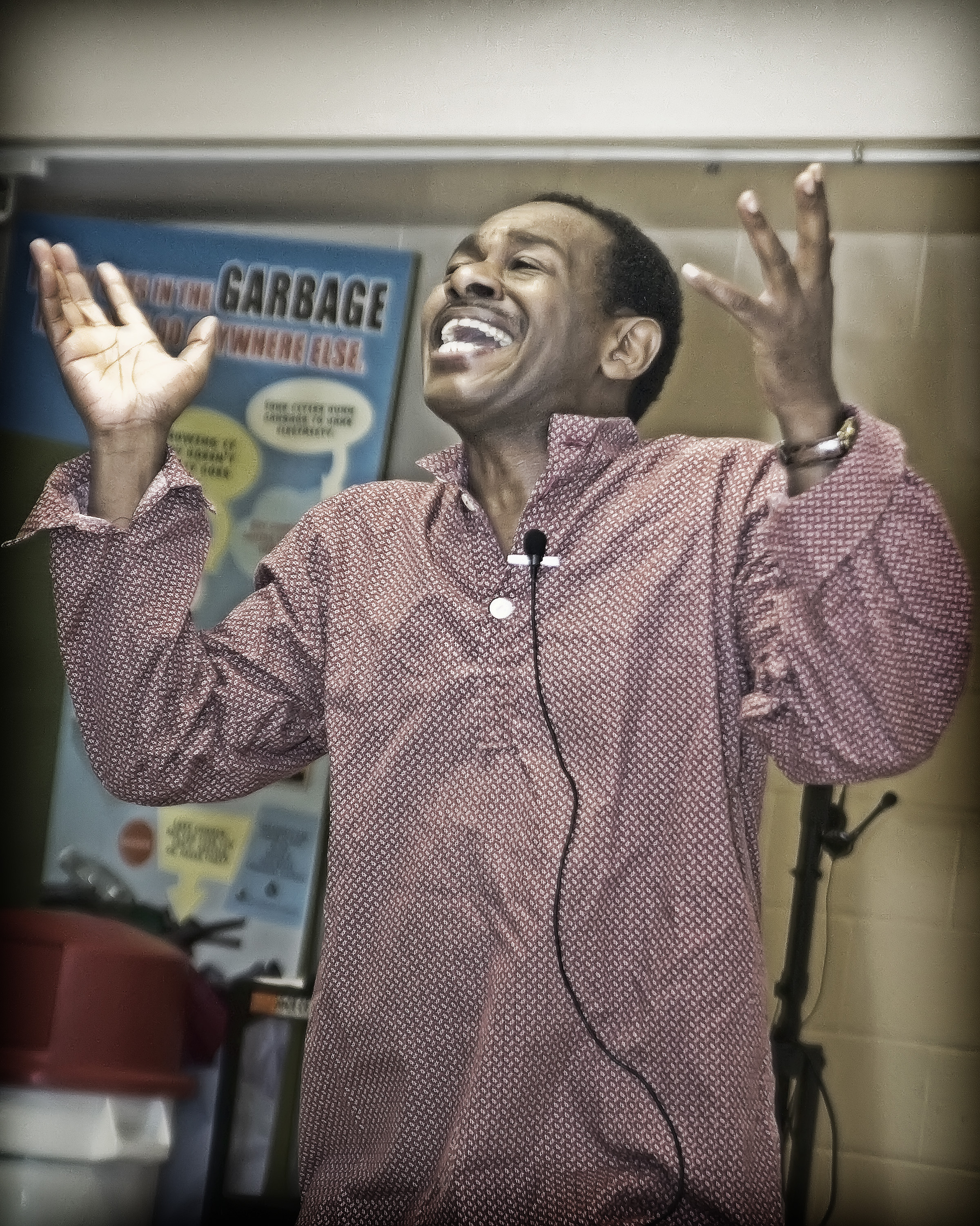 Storyteller Bobby Norfolk performing at a Carver Day special event celebration.